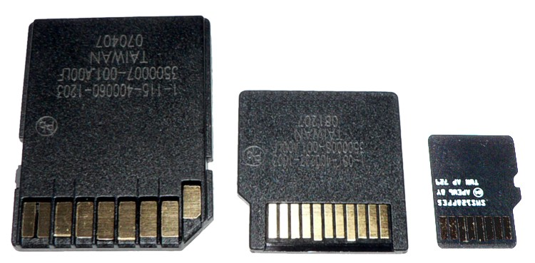 SD cards